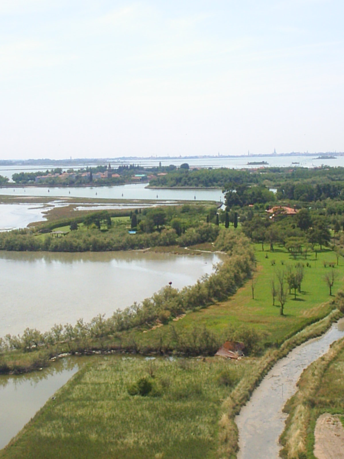 Venice view